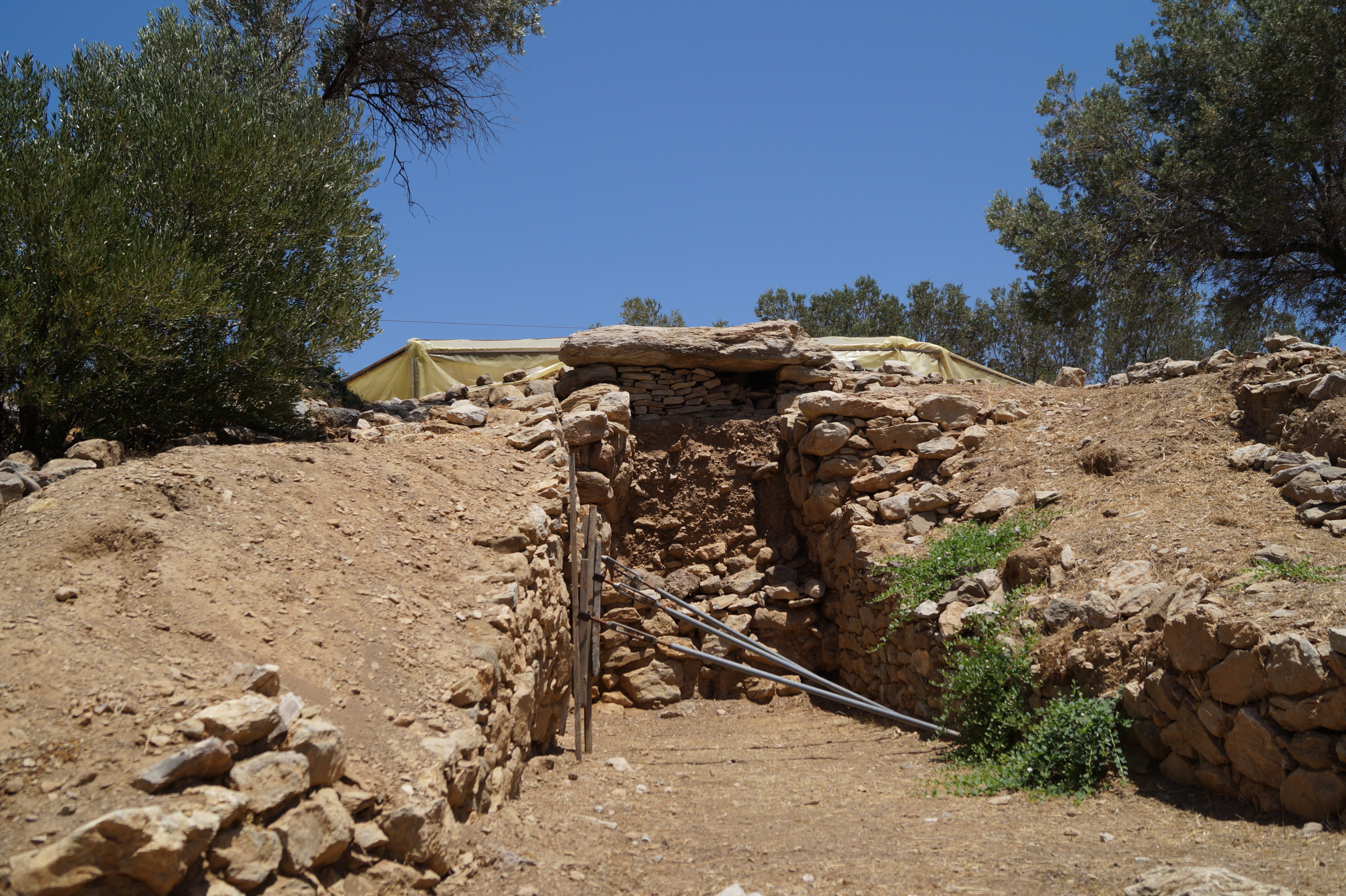 Greece, Peloponnes, Megali Magoula: Dromos and front of tomb 1.